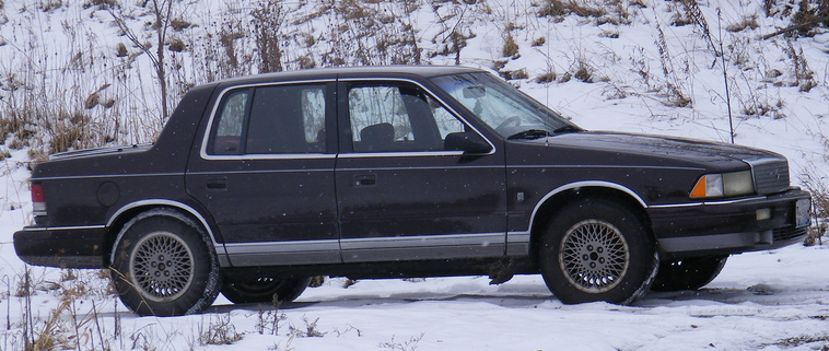 1989-92 Plymouth Acclaim LX. The top-line trim offered, LX models were distinguished externally by lower body cladding and lace-spoke alloy road wheels.